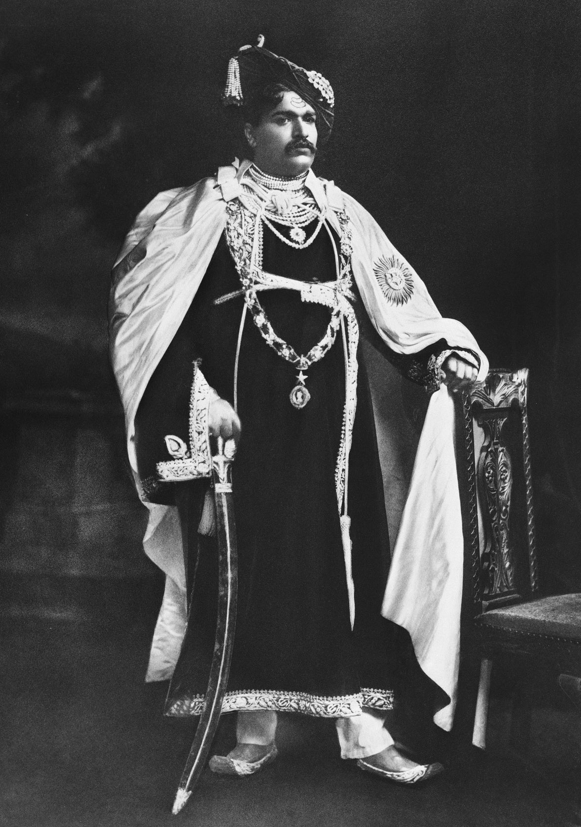 Formal portrait of the Maharajah. He is standing next to a chair & has a sword in his right hand.